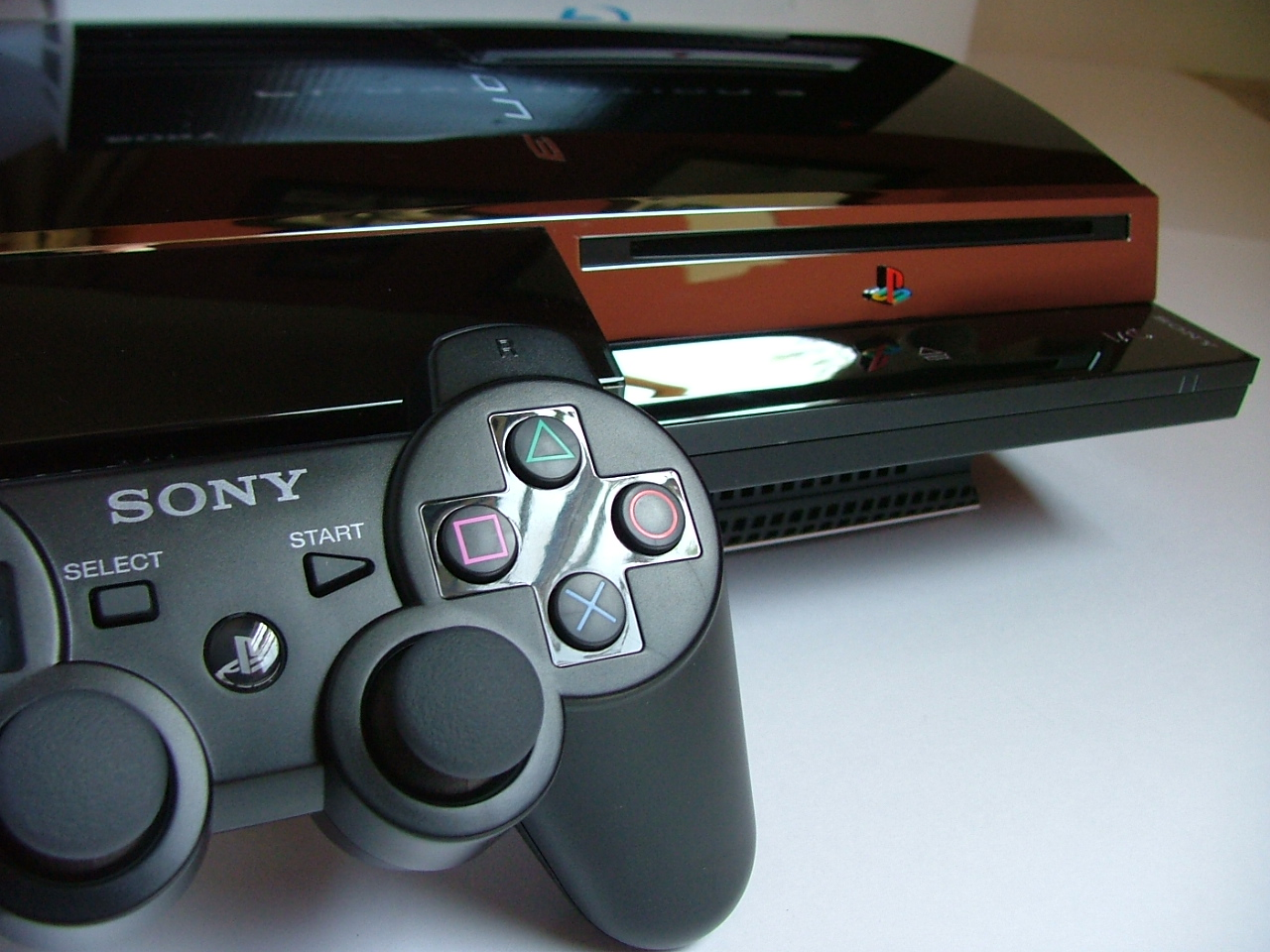 Sny PlayStation 3 & its controller